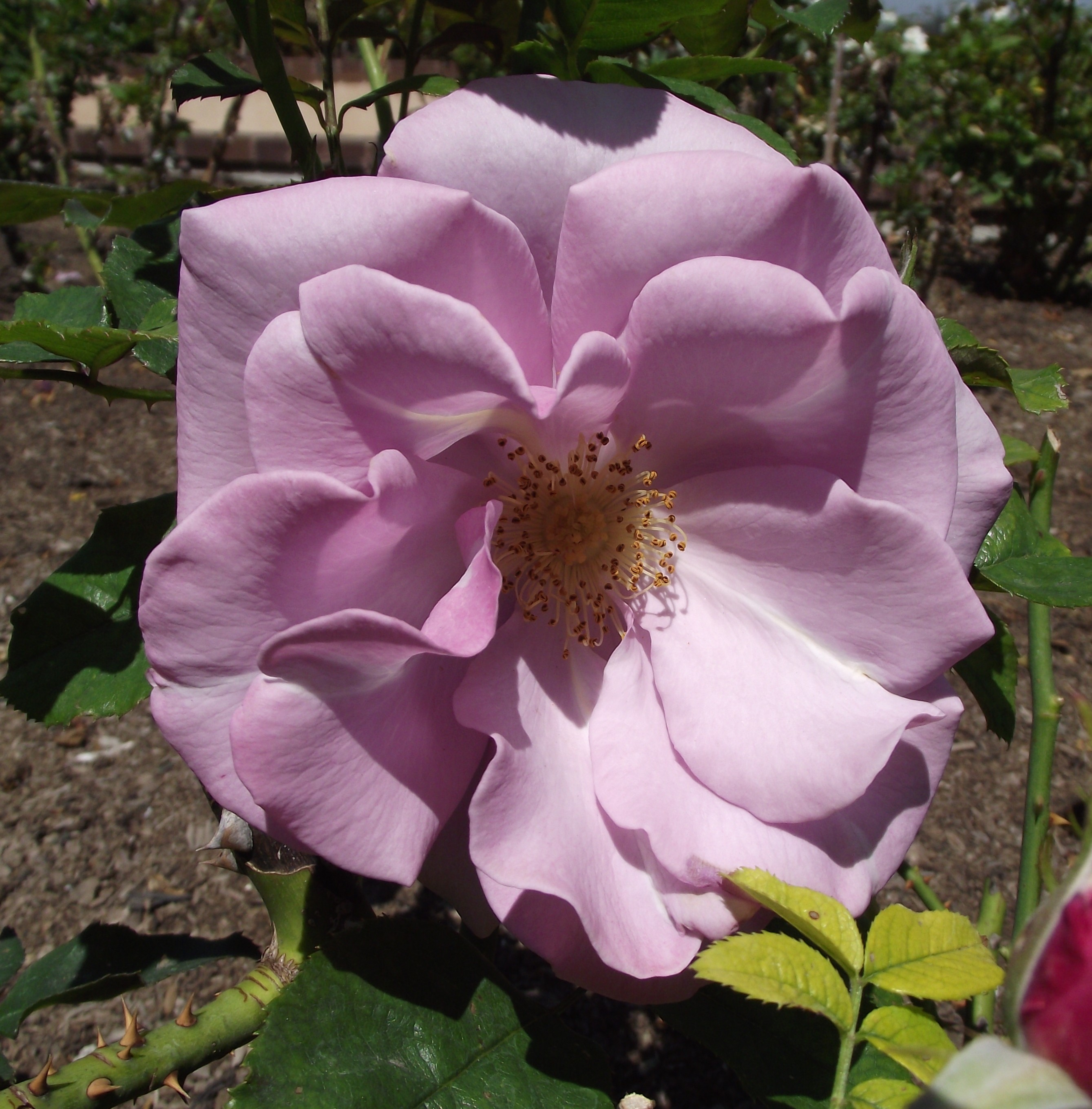 Rosa 'Blueberry Hill' in the Inez Grant Parker Memorial Rose Garden, Balboa Park, San Diego, California, USA.